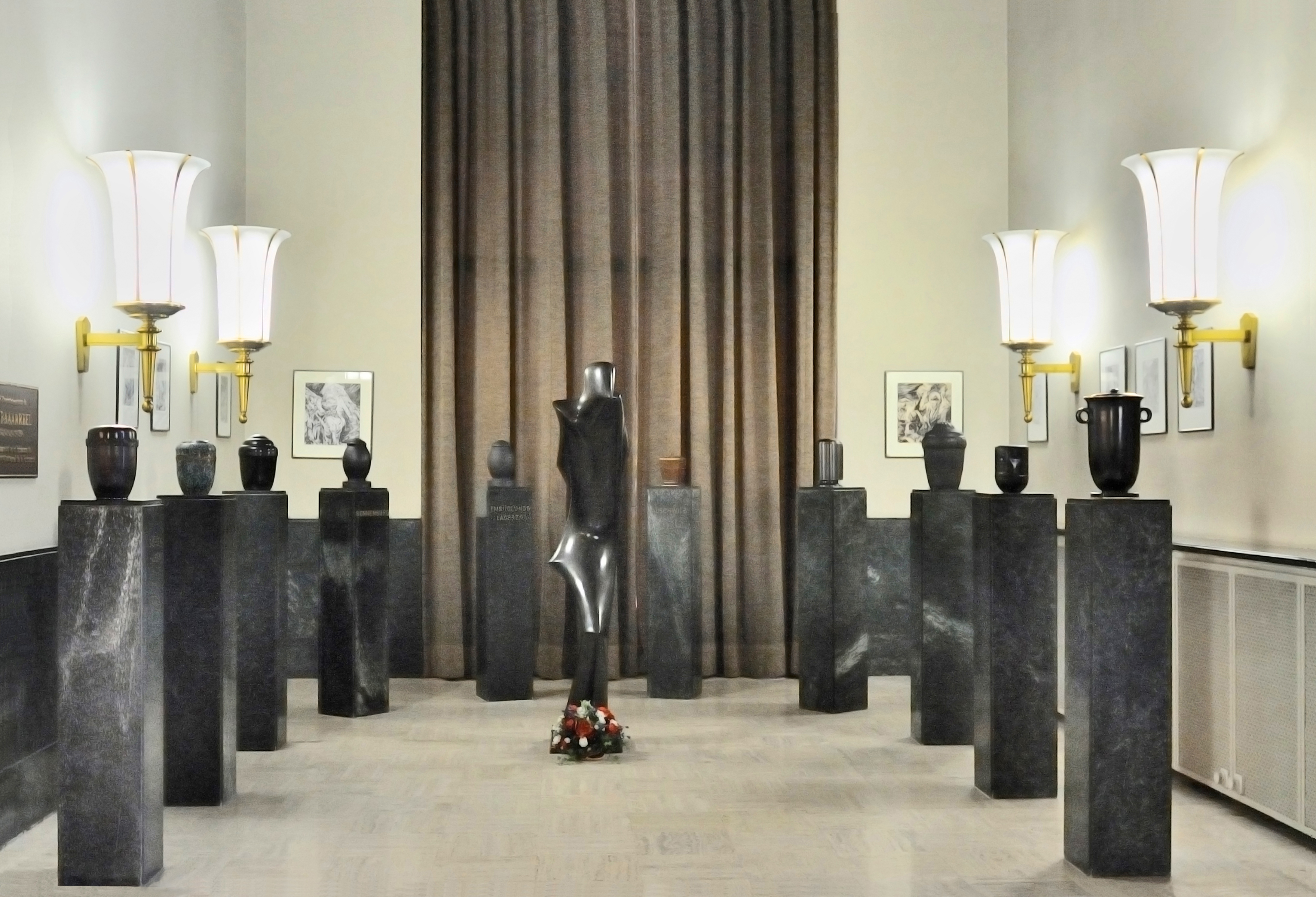 Esch-sur-Alzette, Musée de la résistance, entrance hall, sculpture by Lucien Wercollier, Le prisonnier politique